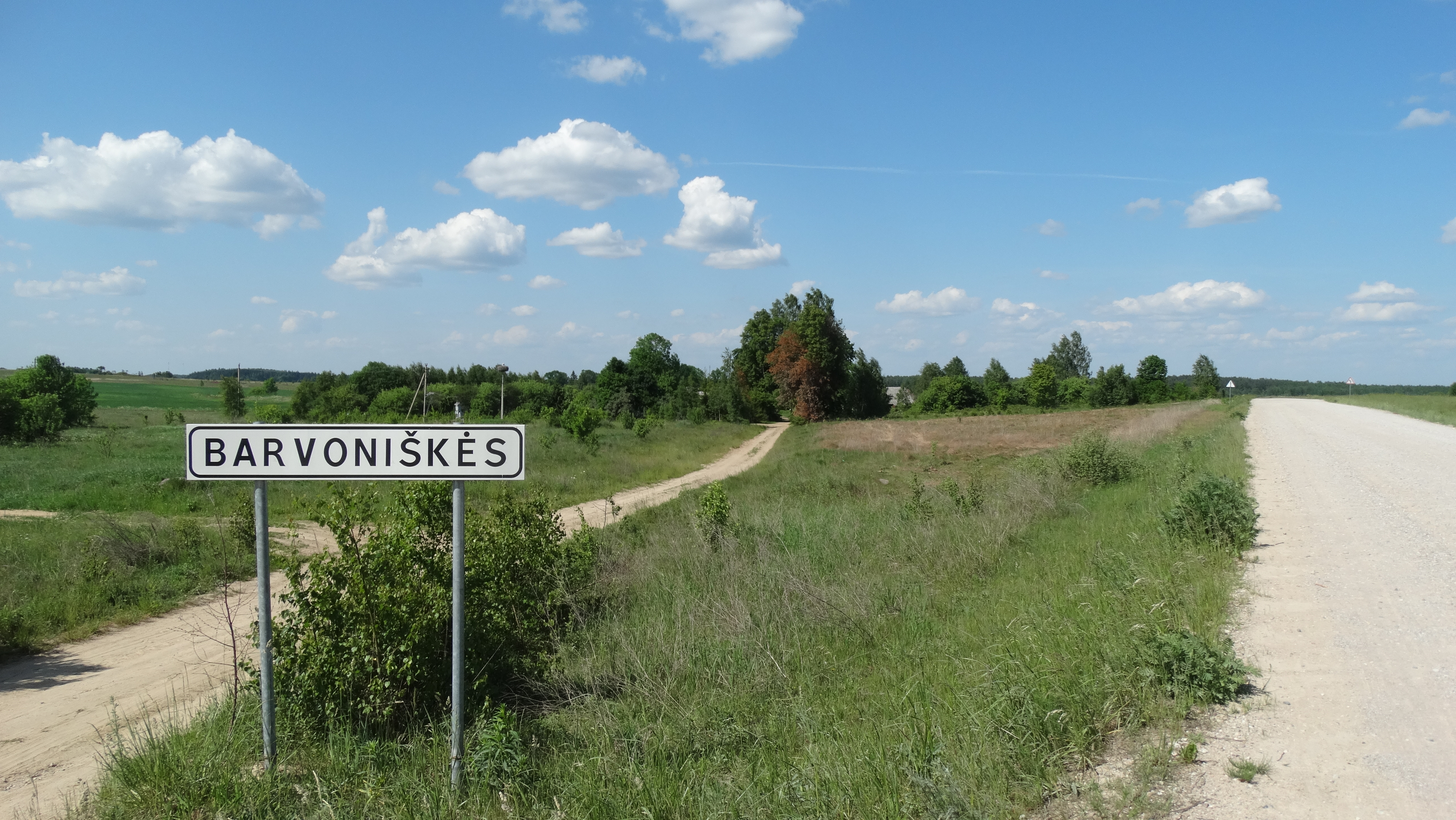 Barvoniškės, Vilnius District, Lithuania